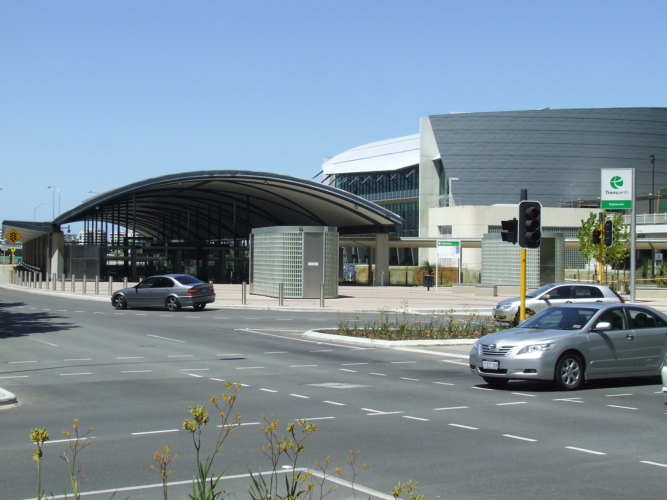 Esplanade Station After Construction Finished